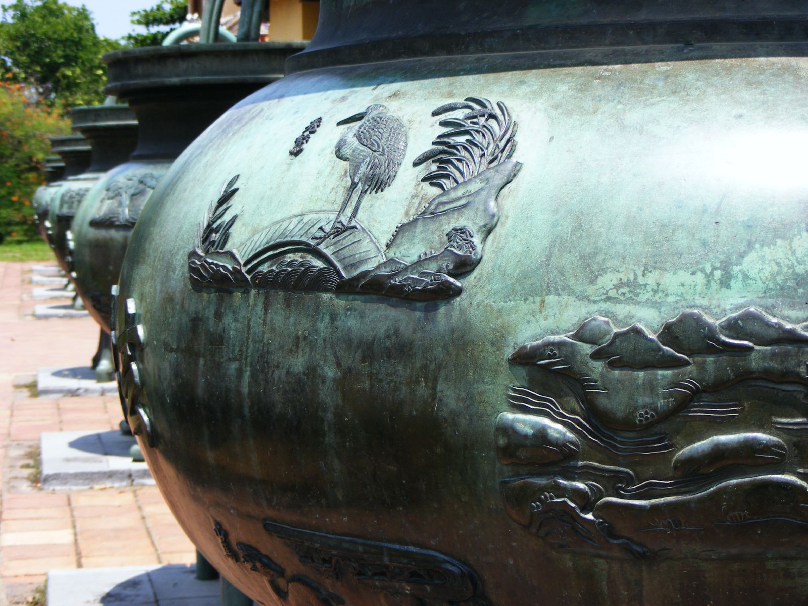 Detail of one of the Nine dynastic dinh (urns). Located in the imperial enclosure (courtyard) of the Mieu Temple of Hue, Vietnam. Bronze sculptures of the Nguyễn dynasty.